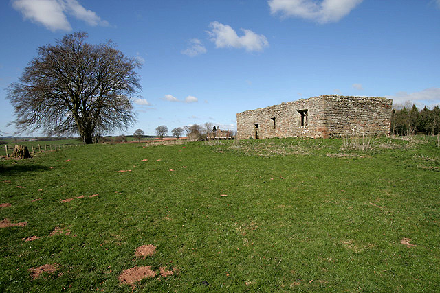 The remains of Bassendean Kirk, Scottish Borders, Scotland.